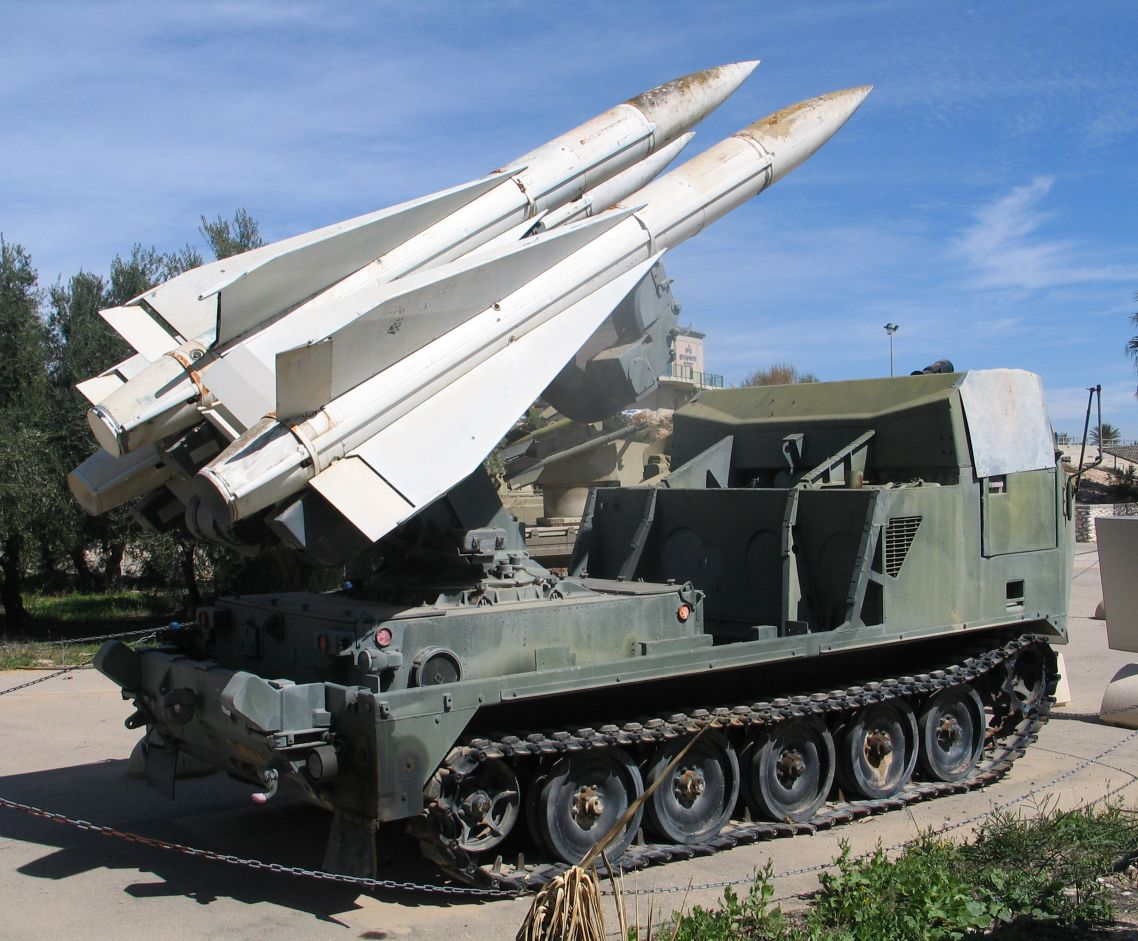 Description: M727 Guided Missile Equipment Carrier (Hawk) at Muzeyon Heyl ha-Avir, Hatzerim, Israel. 2006. Source: Photo by me, User:Bukvoed.